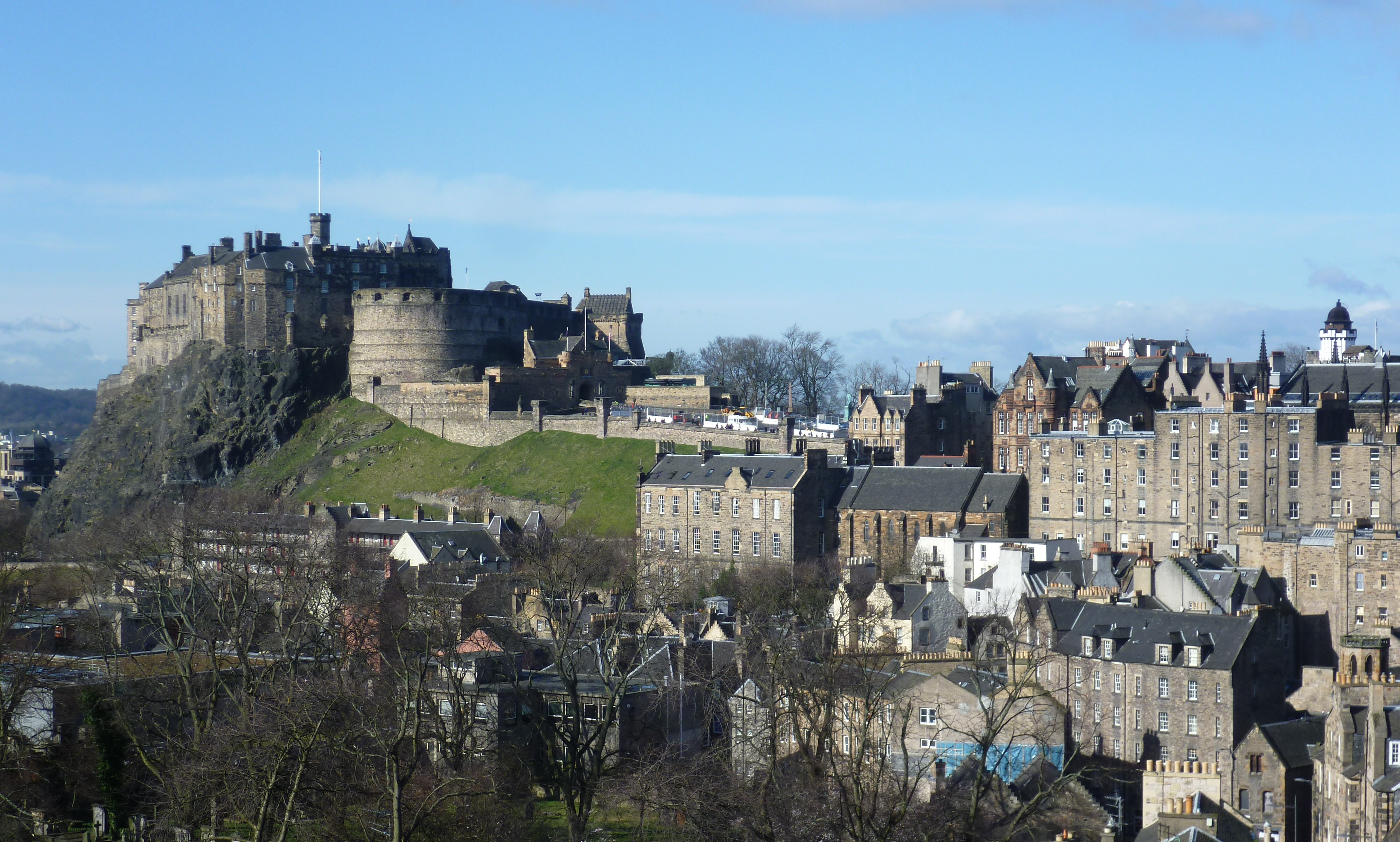 Edinburgh Castle seen from the roof of the National Museum of Scotland. The medieval burgh grew along the ridge sloping down from the castle.